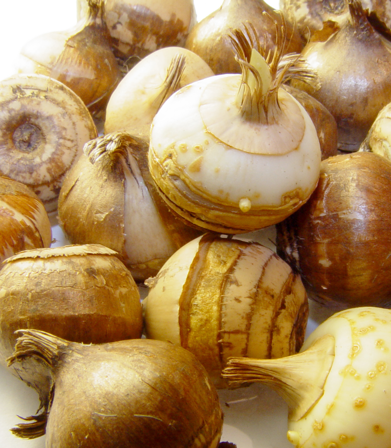 Crocus chrysanthus 'Dorothy'